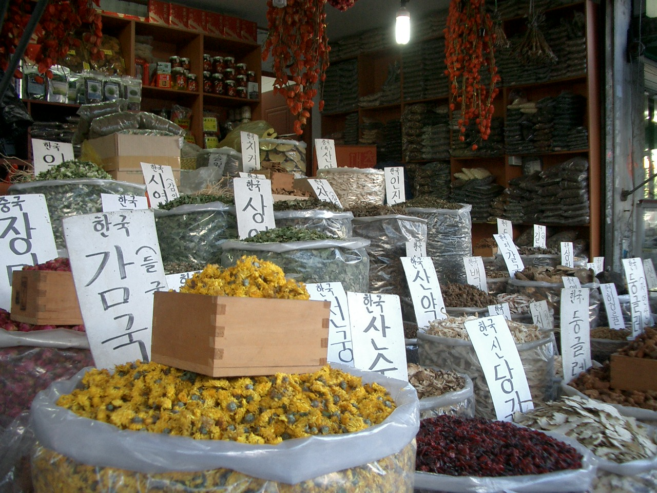 서울 동대문구 제기동에 있는 경동시장의 모습 Dried herbs for medicine in Kyungdong Market, Jegidong, Dongdaemun-gu, Seoul, Korea